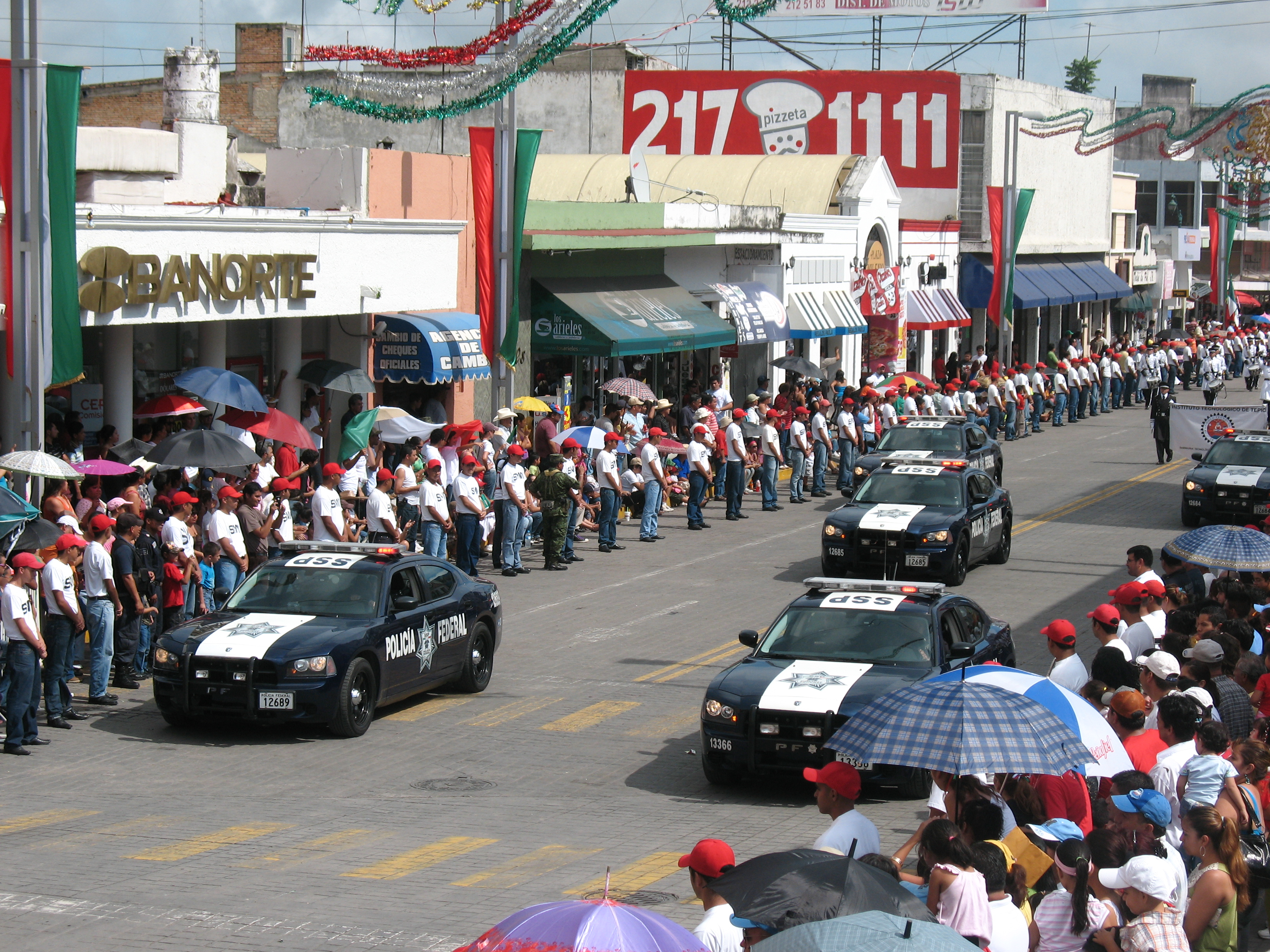 Cars of Mexican Policia Federal participating at an independence day parade in Tepic